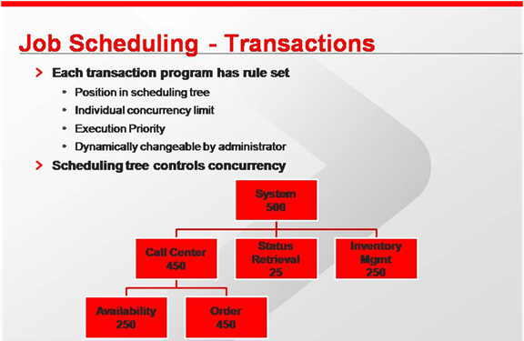 Unisys OS 2200 transaction scheduling for use in article.